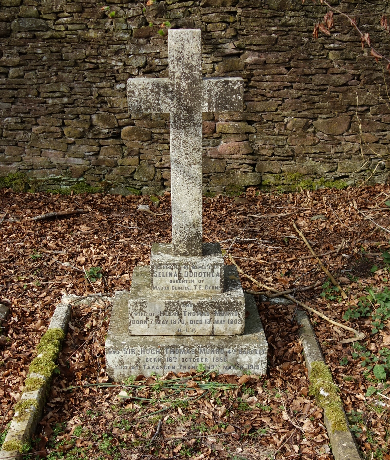 This image shows the grave of [Sir Hugh Thomas Munro]( 4th Baronet (16 October 1856–19 March 1919) who is buried on the family estate of Lindertis near Kirriemuir in Angus.